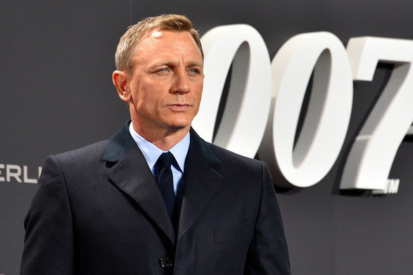 Following the world premiere in London on Monday and Tuesday's simultaneous screenings in Zurich and Rome, it was German fans getting their fix of 007 on Wednesday. Leading man Daniel Craig and the movie's baddie Christoph Waltz were dapper as ever as they were greeted by screaming fans outside Berlin's Sony Centre. More Photos At